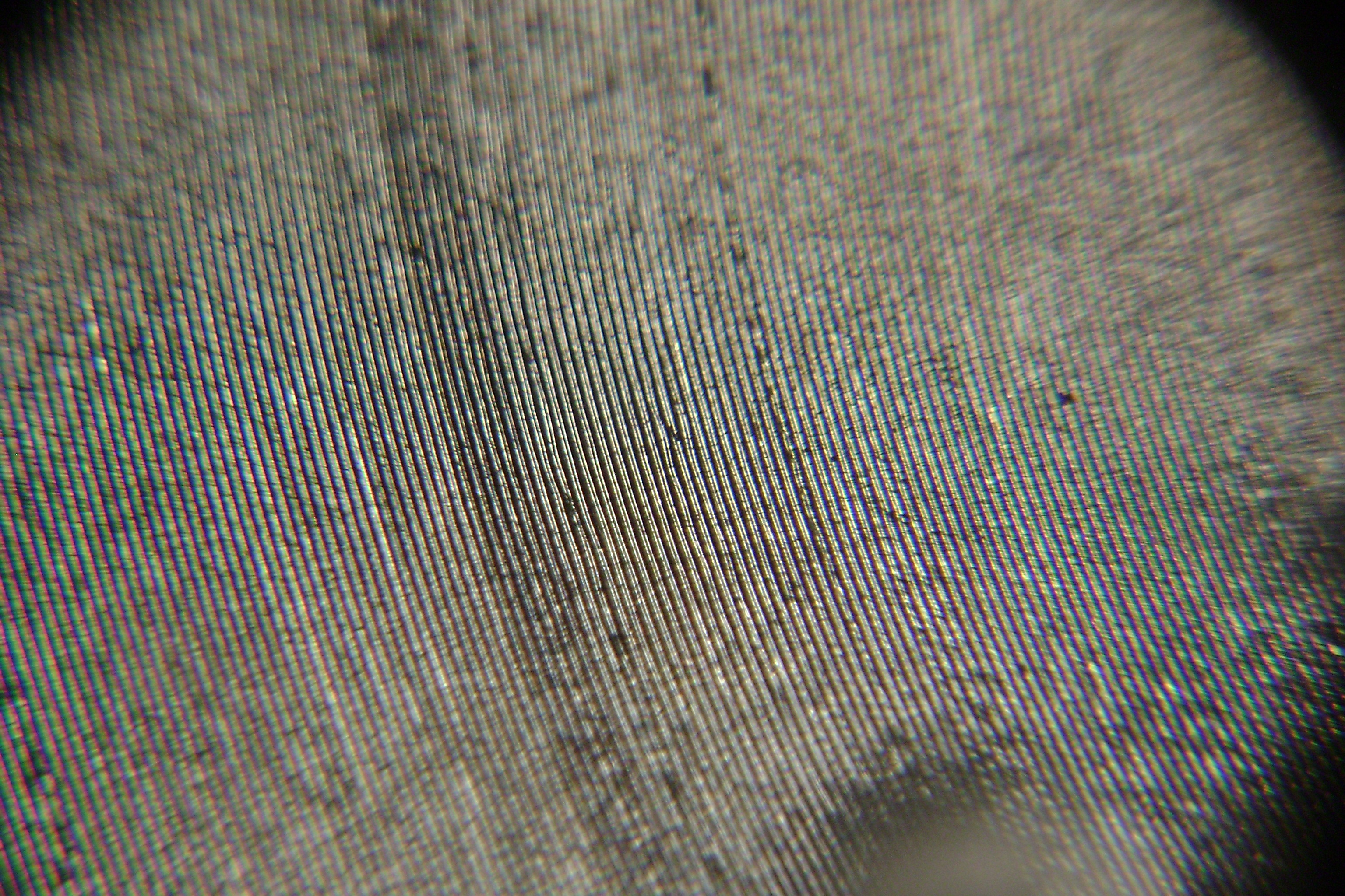 A 78 rpm gramophone record made in 1925 by the Victor company, photographed with a sony dsc700 with a magnifying glass to show the groove in detail, but it´s unfocused on the sides